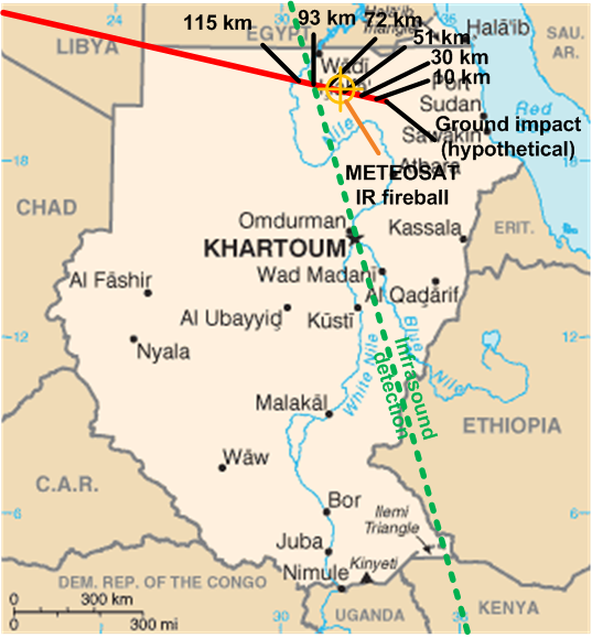 Ground track and probable explosion point in midair of the asteroid 2008 TC3 which entered earth's atmosphere and exploded over Sudan on 2008-10-06. Original map CIA Factbook. Graphic overlay George William Herbert 2008-10-07. GFDL and CC-BY-3.0 dual licensed. Ground track from Very near NEO Meteoroid (Mike Kretlow); infrasound track from [1] (Dr Peter Brown); IR fireball location from [2] and [3] (EUMETSAT). The infrasound map image can also be found at [4].